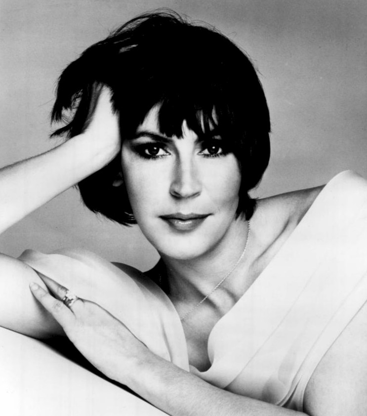 Publicity photo of singer Helen Reddy